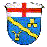 Wappen Rothenbach This file depicts the coat of arms of a German Körperschaft des öffentlichen Rechts (corporation governed by public law). According to § 5 Abs. 1 of the German Copyright law, official works like coats of arms are in the public domain. Note: The usage of coats of arms is governed by legal restrictions, independent of the copyright status of the depiction shown here.